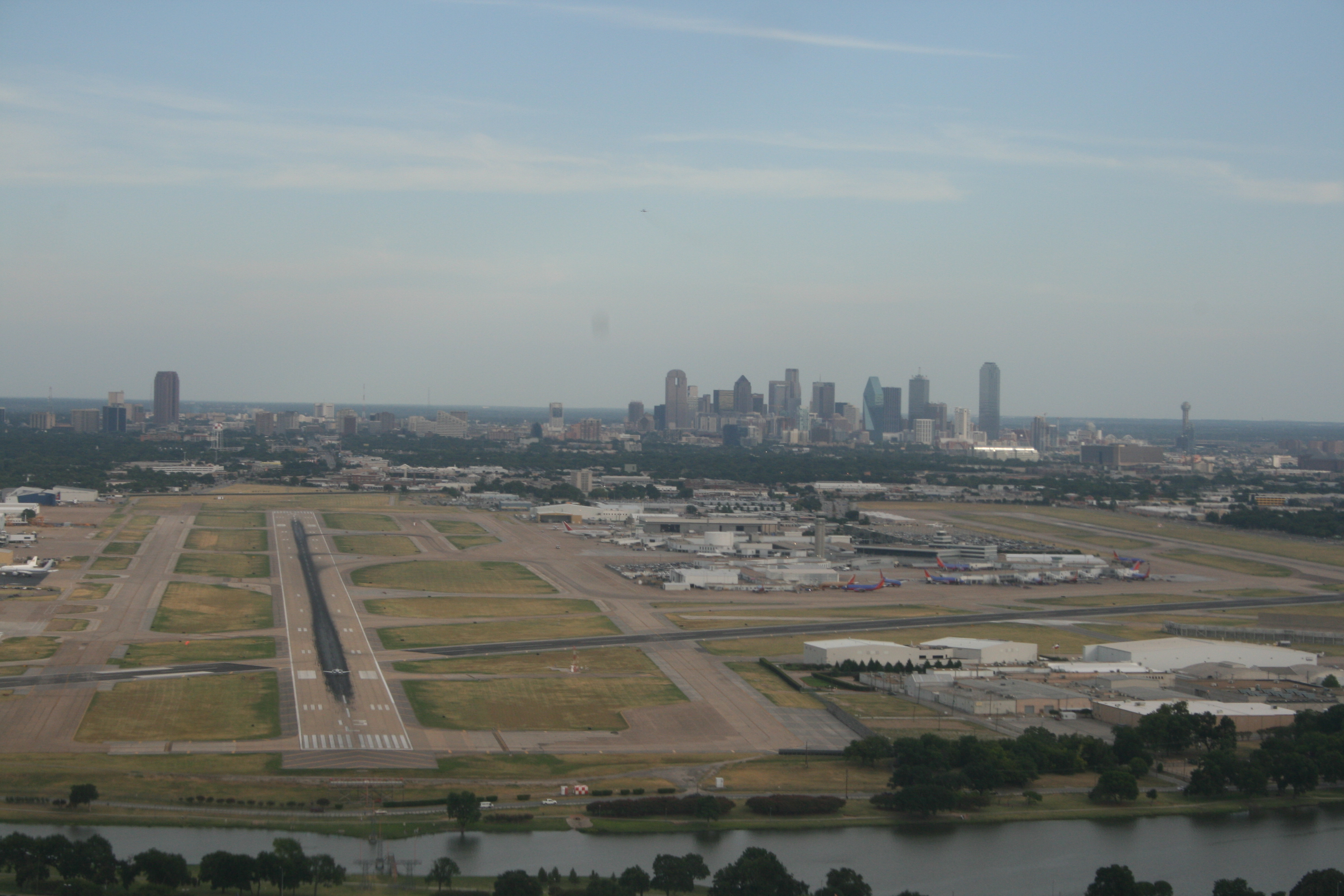 Dallas Love Field runway 13L on final approach.